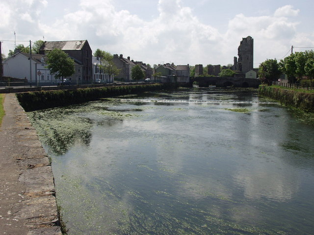 Askeaton, River Deel The River Deel at Askeaton, looking South.